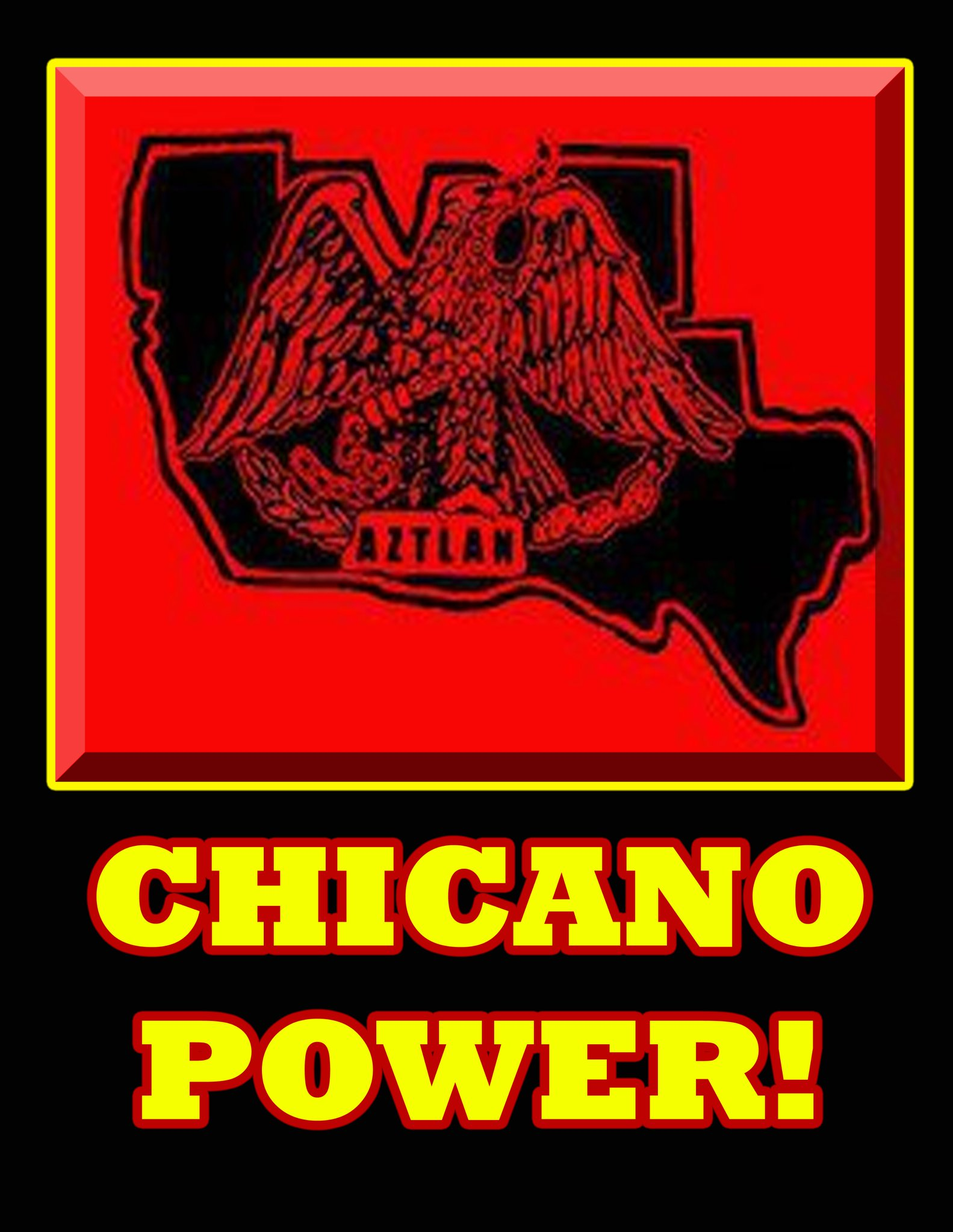 Chicano Power flag of Aztlan